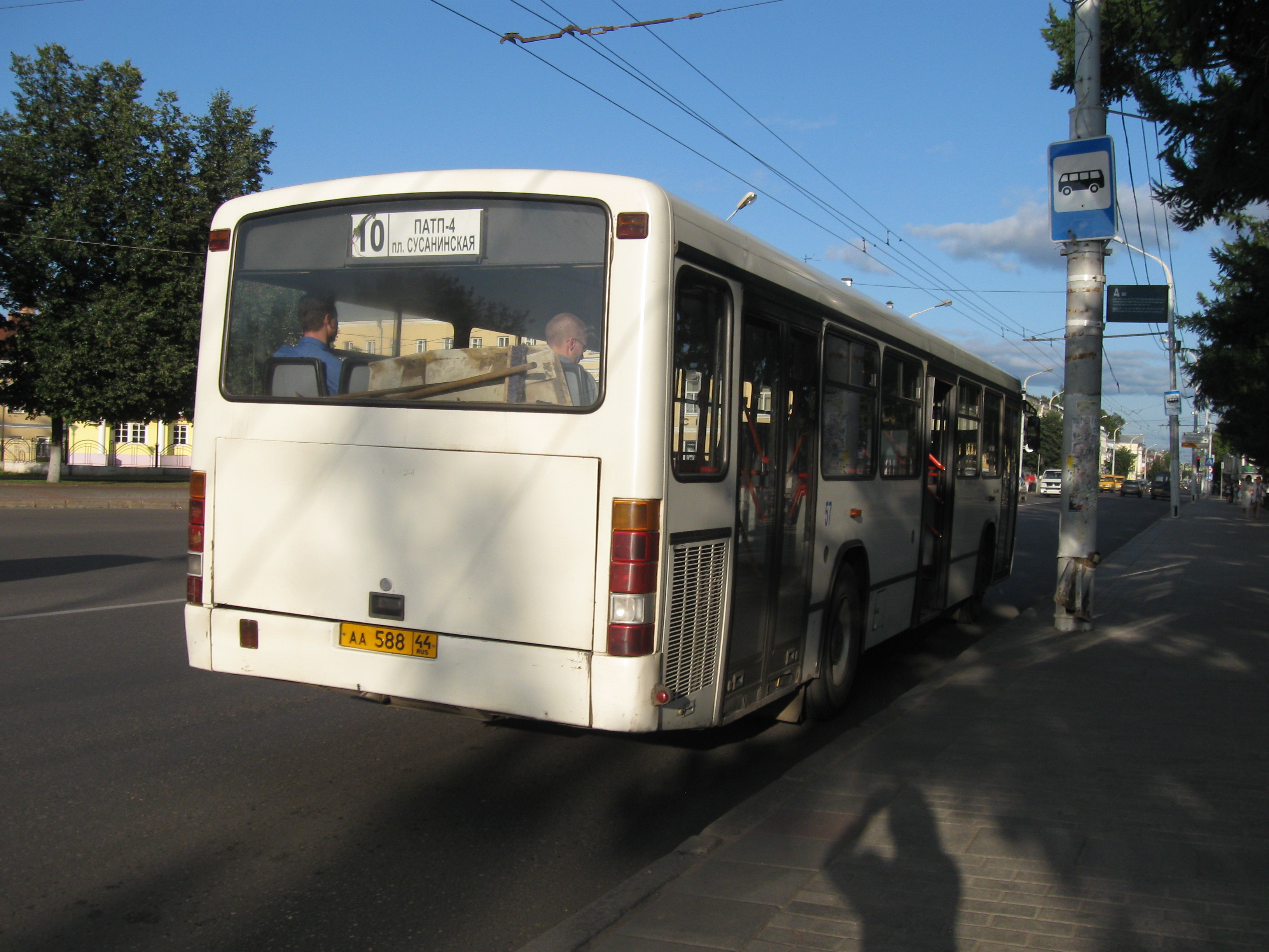 Mercedes-Benz O 345 bus (#57) in Kostroma, Russia.